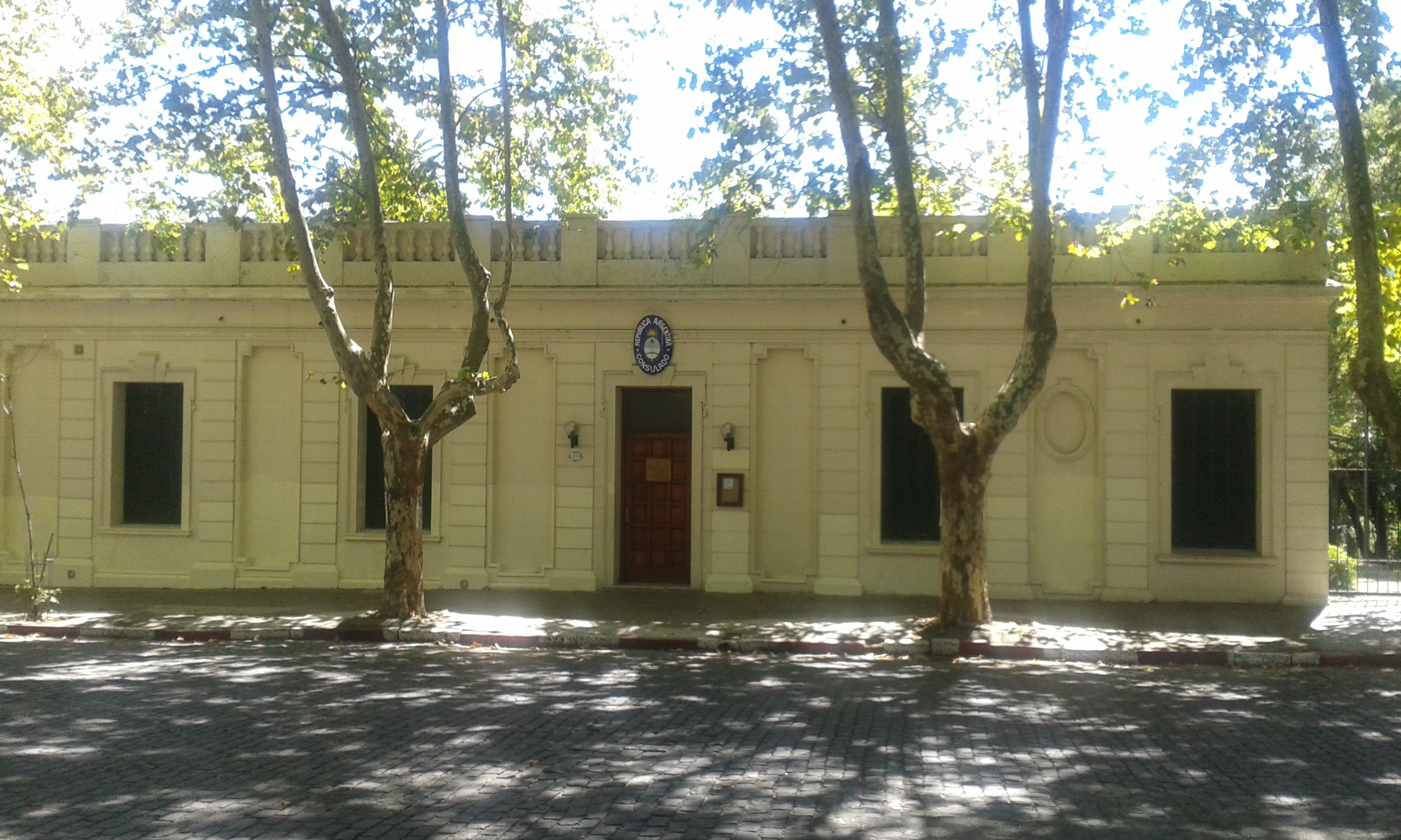 Argentine consulate in Colonia del Sacramento.